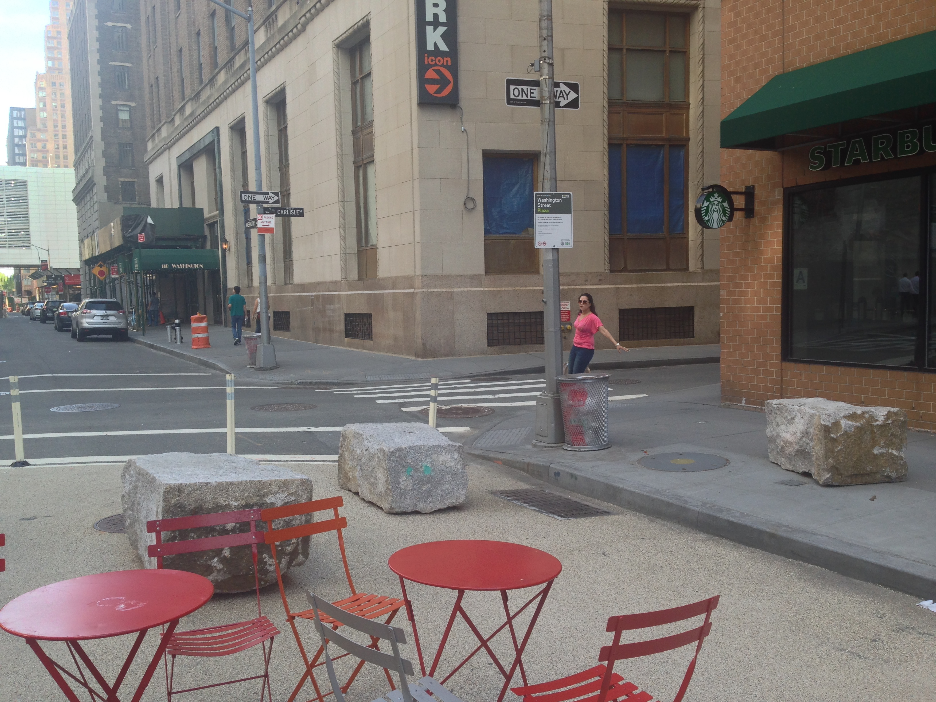 Picture of Washington Street Plaza at Carlisle and Albany Streets in Lower Manhattan (including sign)